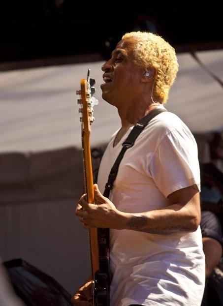 Sergio Vega performing with Deftones at Big Day Out Melbourne 2011.